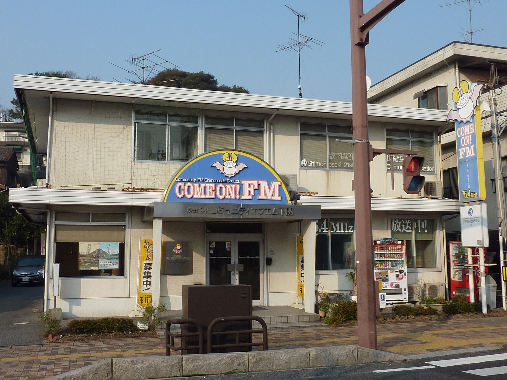 Community FM Shimonoseki Studio (JOZZ8AE-FM "Come on FM" - Yamaguchi Prefecture, Japan)